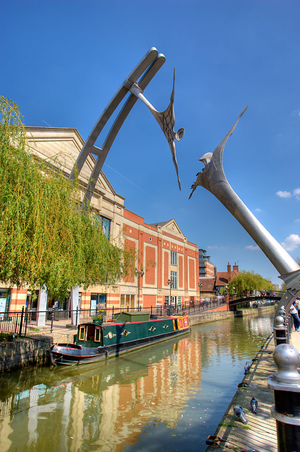 Canal barge ties up under the modern sculpture in central Lincoln, Lincolnshire. Process: 5 x RAW to 1 x HDR then tone mapped to 1 x TIF